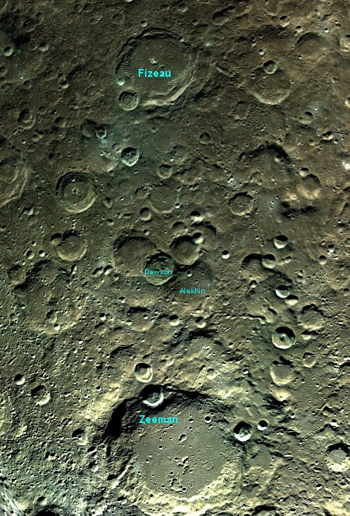 Moon crater Dawson and nearby craters.